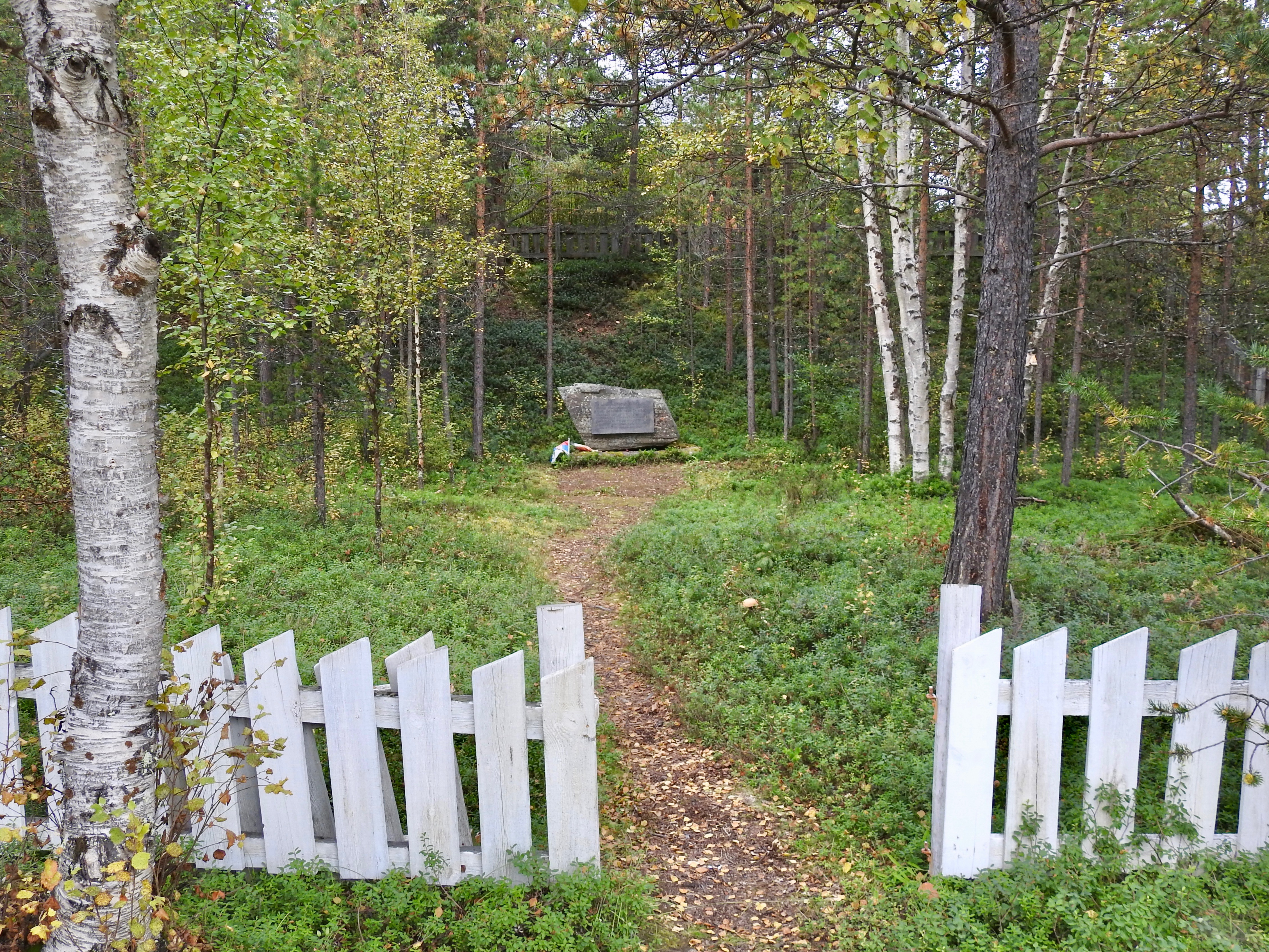 Memorial place for the Jugoslav prisoners of war, who were killed in the German concentration camp in Karasjok between 1940 and 1945 (Kommune Karsjok)